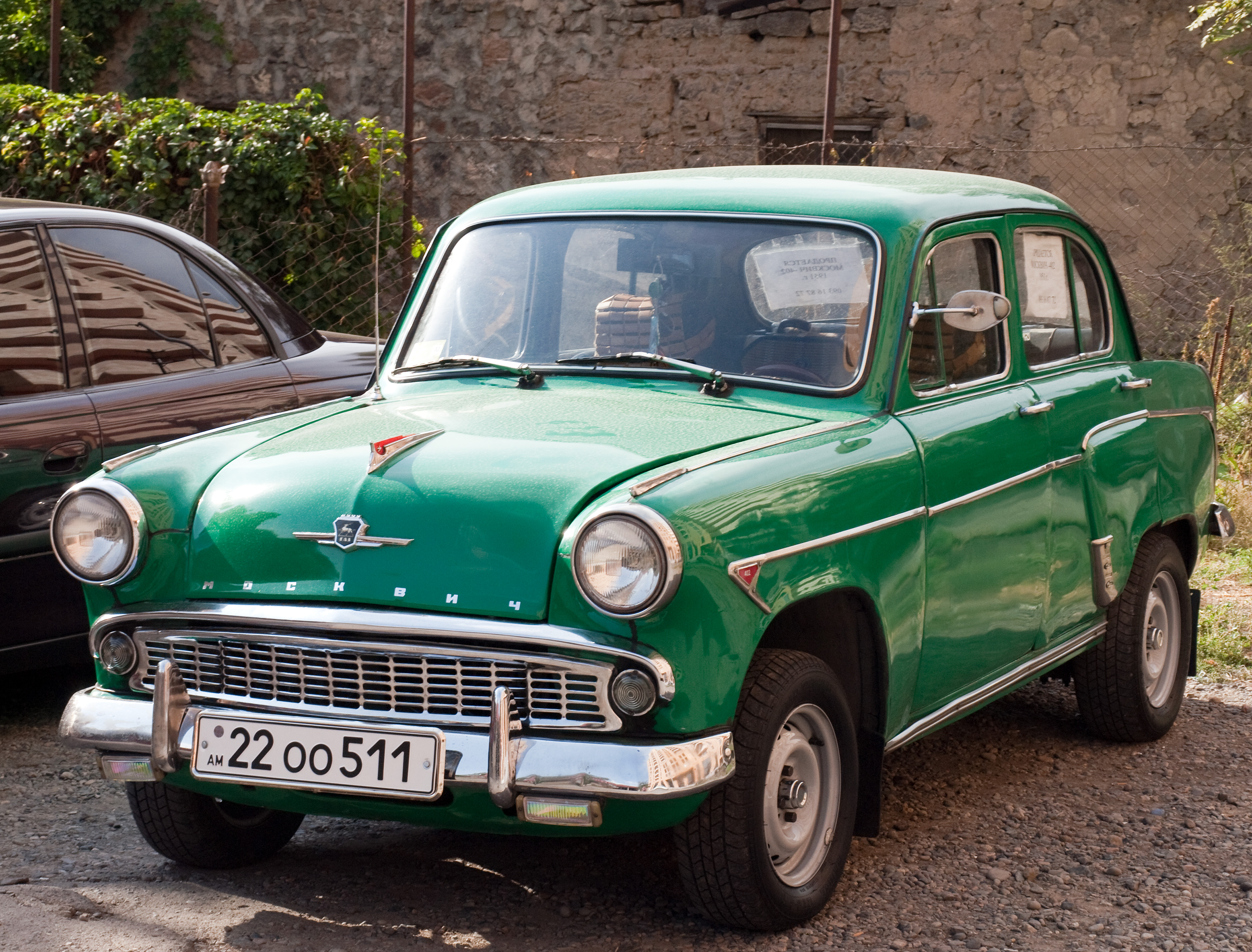 Moskvitch in Armenia. The car is most probably Moskvich 407 (side trim, newer grill) with "402" numbers, that weren't used on real 402s.